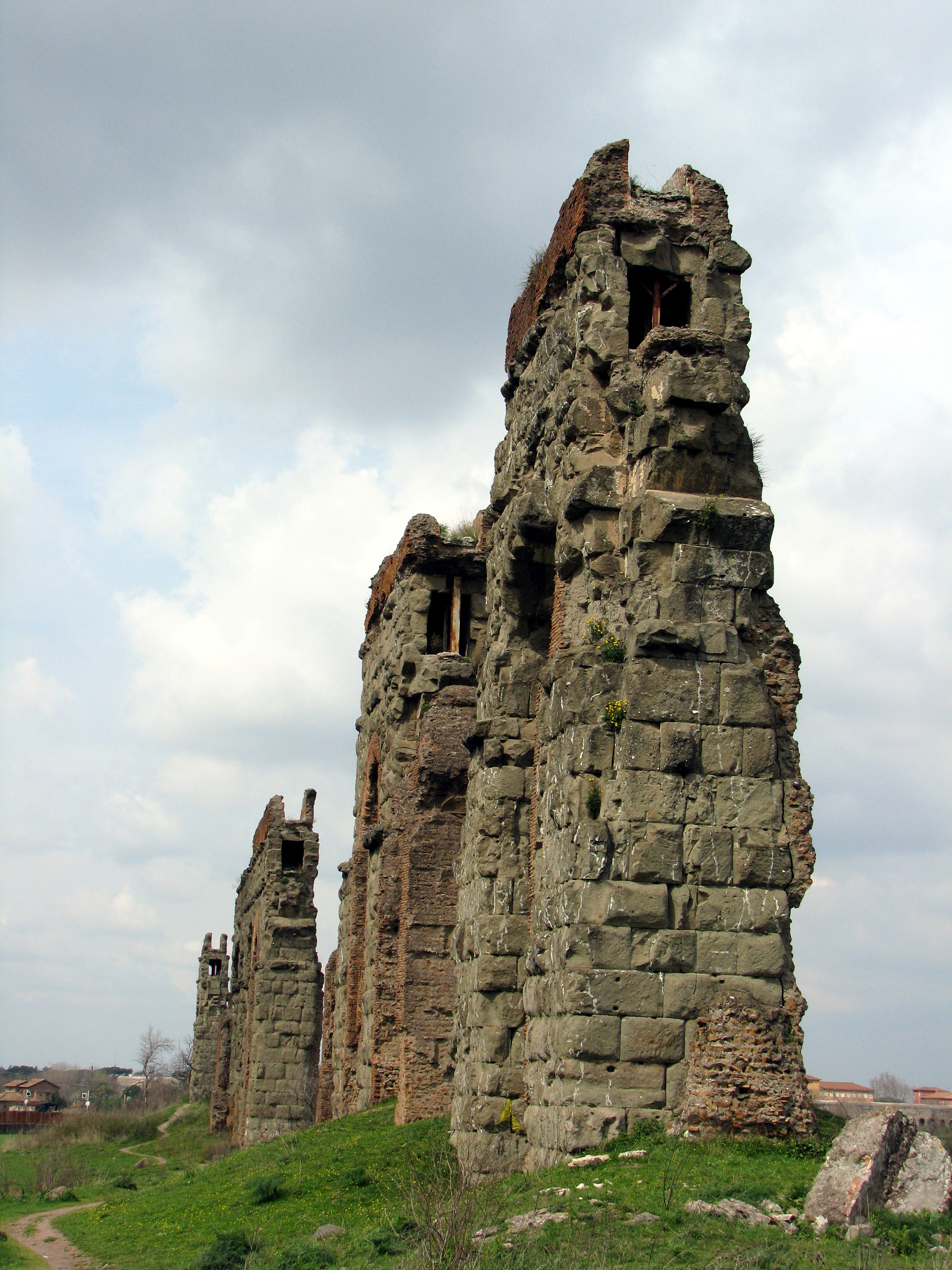 View of the Aqua Claudia near Romavecchia in Rome. On top of the Aqua Claudia is the Anio Novus channel